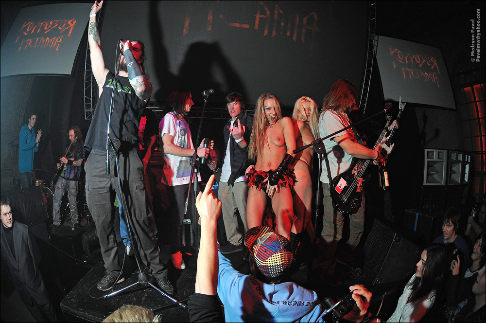 Corrosia Metalla live at "RE:"